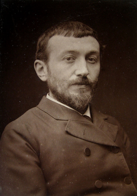 Photo carte de visite of Henri-Alfred Bramtot.